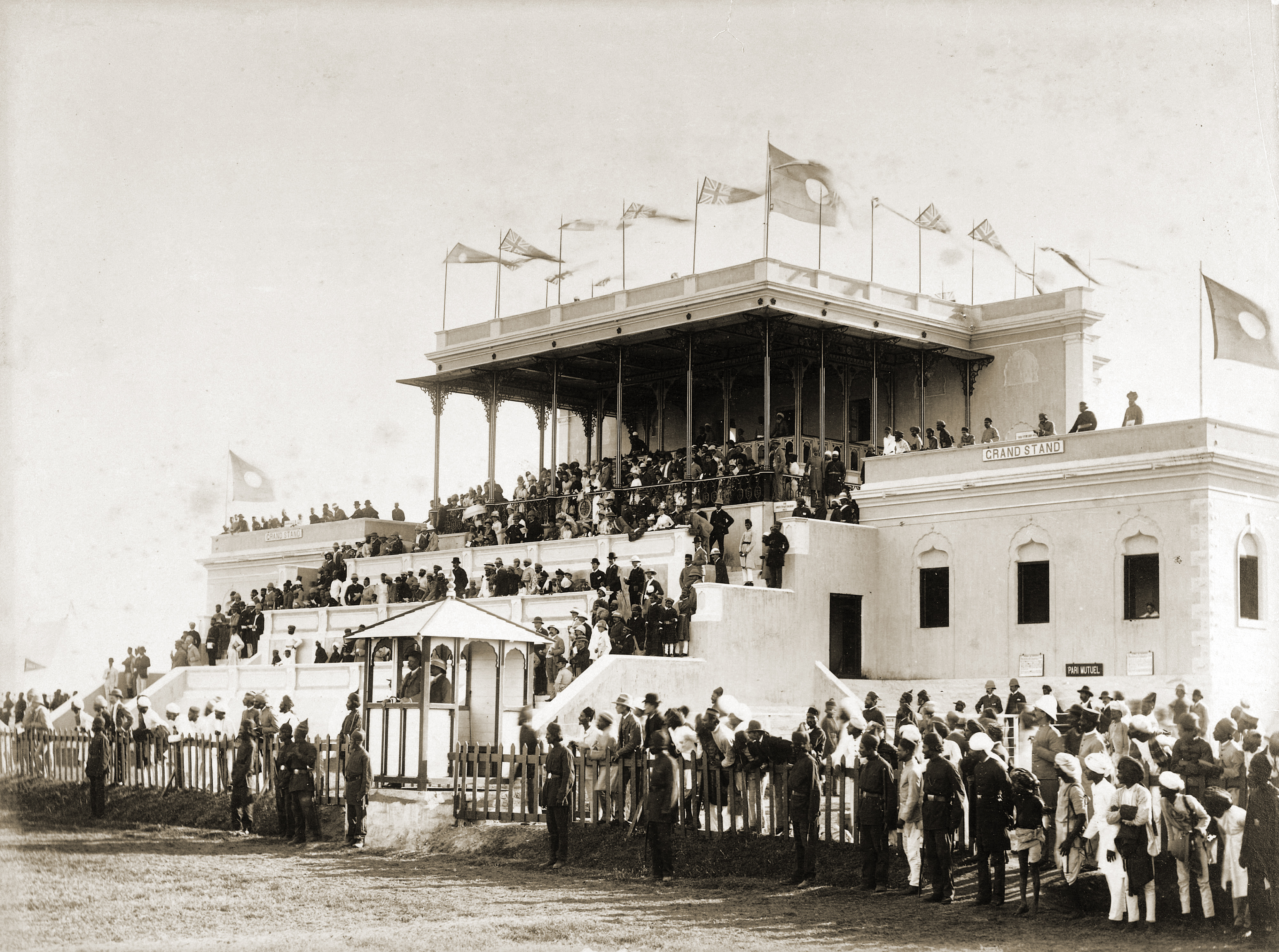 View of the stand at Malakpet, photographed by Deen Dayal in the 1880s, from the Curzon Collection: 'Views of HH the Nizam's Dominions, Hyderabad, Deccan, 1892'